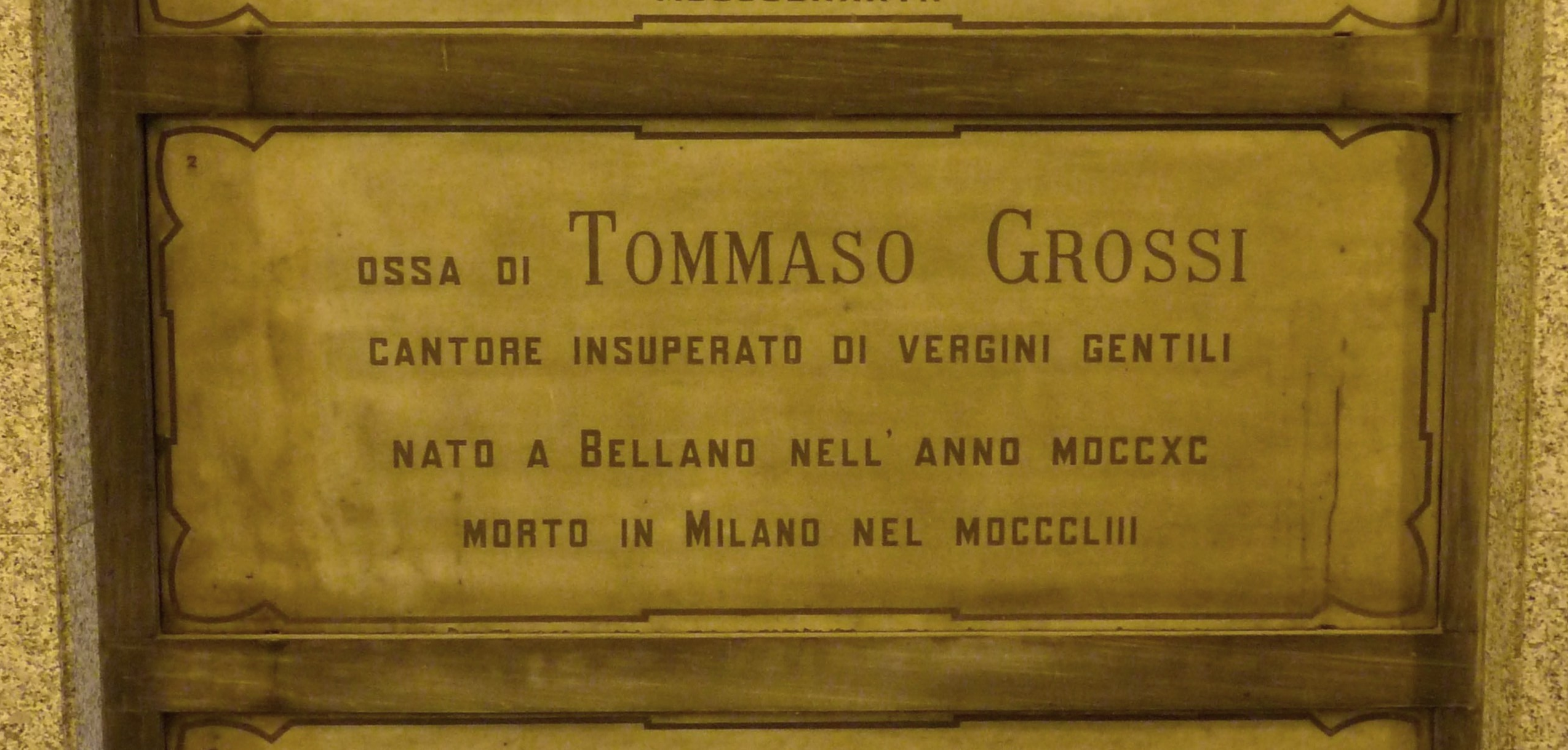 The grave of Italian writer Tommaso Grossi at the Monumental Cemetery of Milan, Italy.